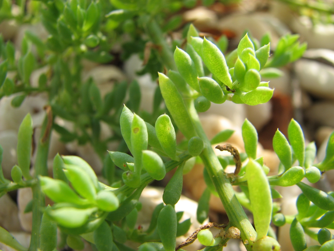 Threlkeldia diffusa (cultivated, labelled) ,Geelong Botanic Gardens, Victoria, Australia